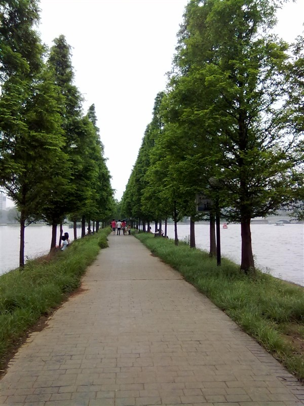 A the tree-lined track in Hunan Martyrs Park.